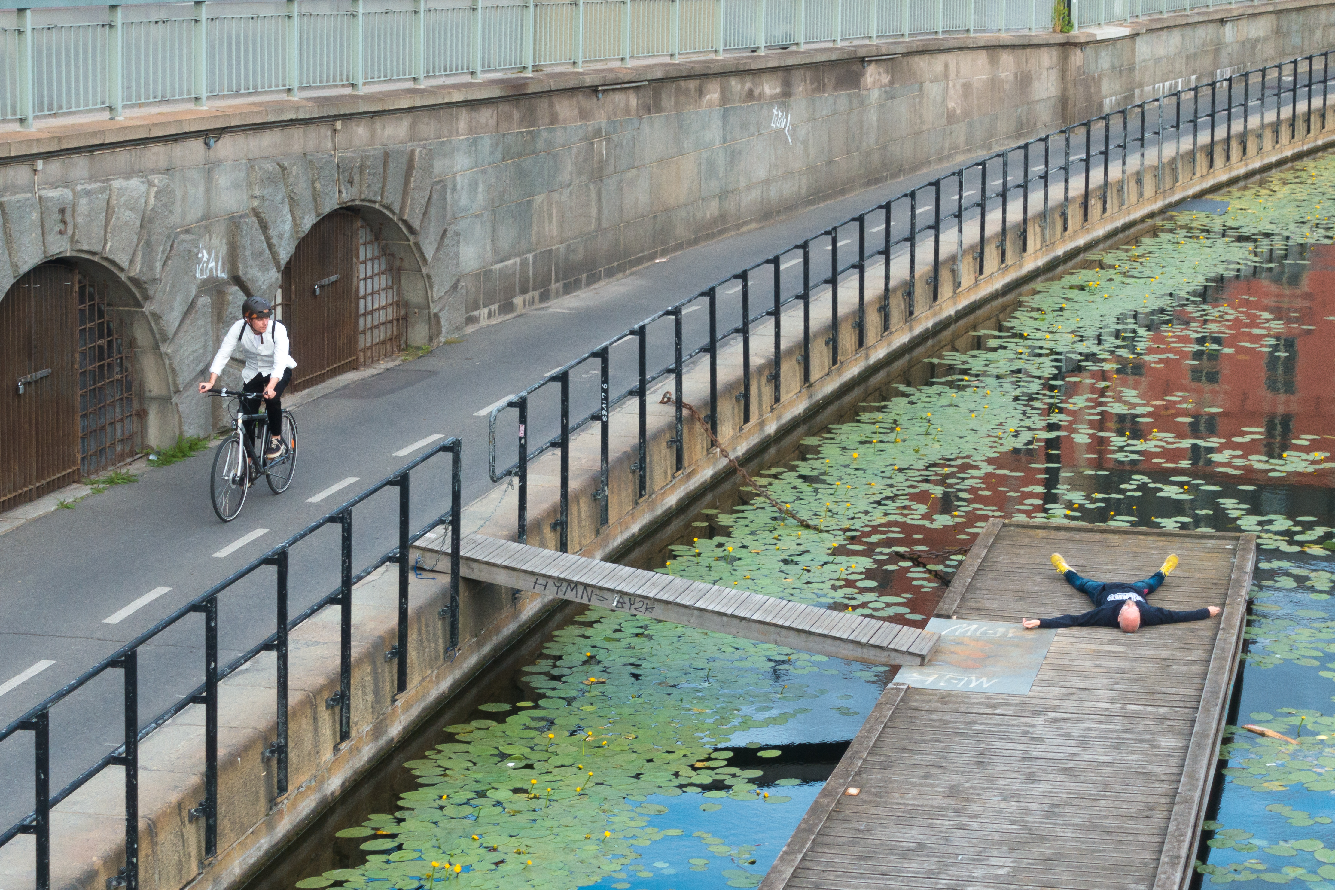 Rest and recovery after a running workout